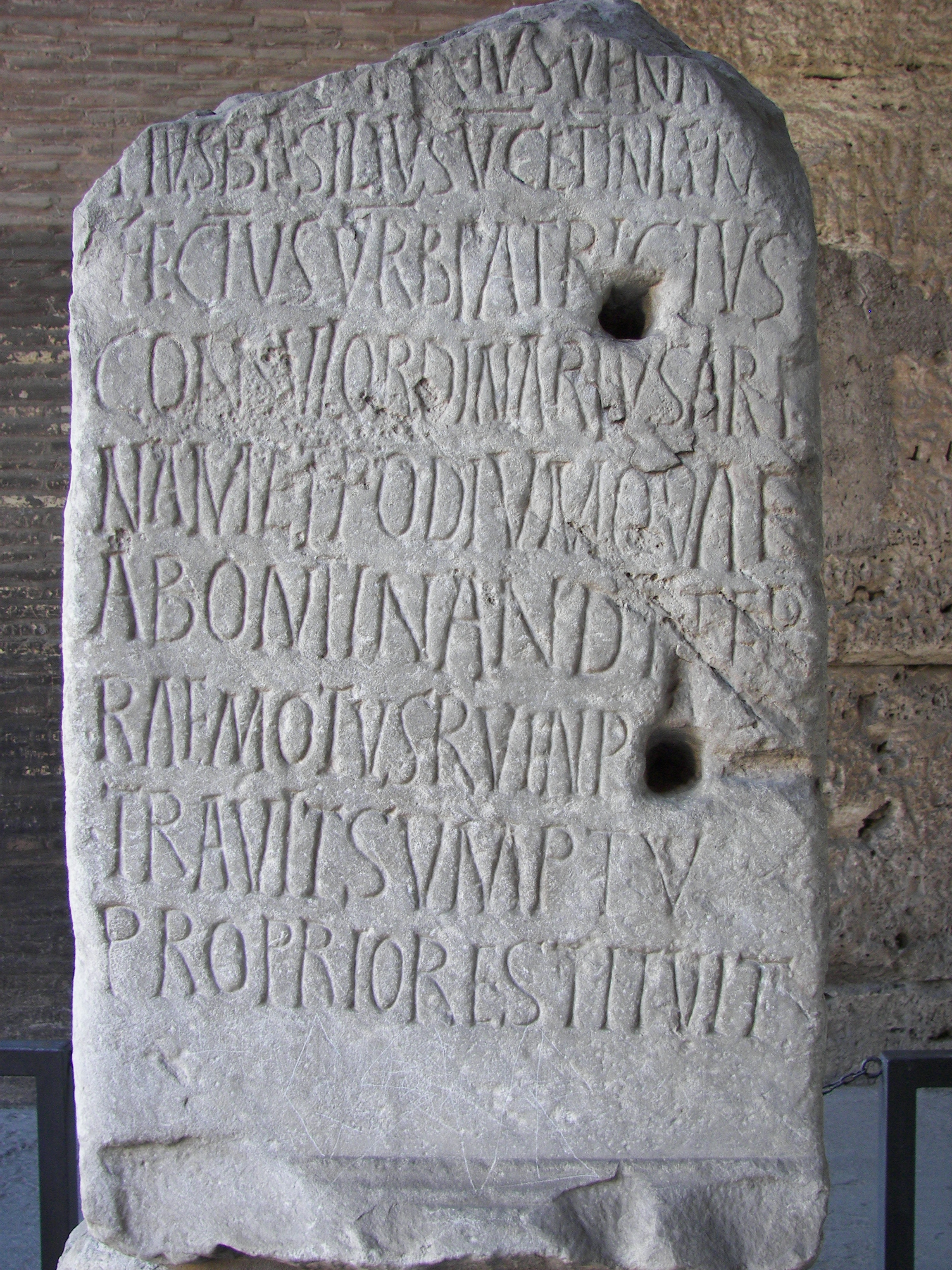 Inscription for 5th century Roman Consul Decius Marius Venantius Basilius in the Colosseum in Rome. CIL VI 1716 c, VI 32094 c.